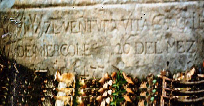 Jewish year 5477 inscription mentioning the Ventura Vita family in the Jewish Cemetery in Pisa, Italy.